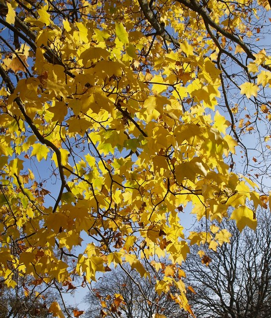 Acer near Birch Walk The yellow autumn leaves of a Cappadocian Maple Acer cappadocicum between Collaton Road and Birch Walk in Shiphay.